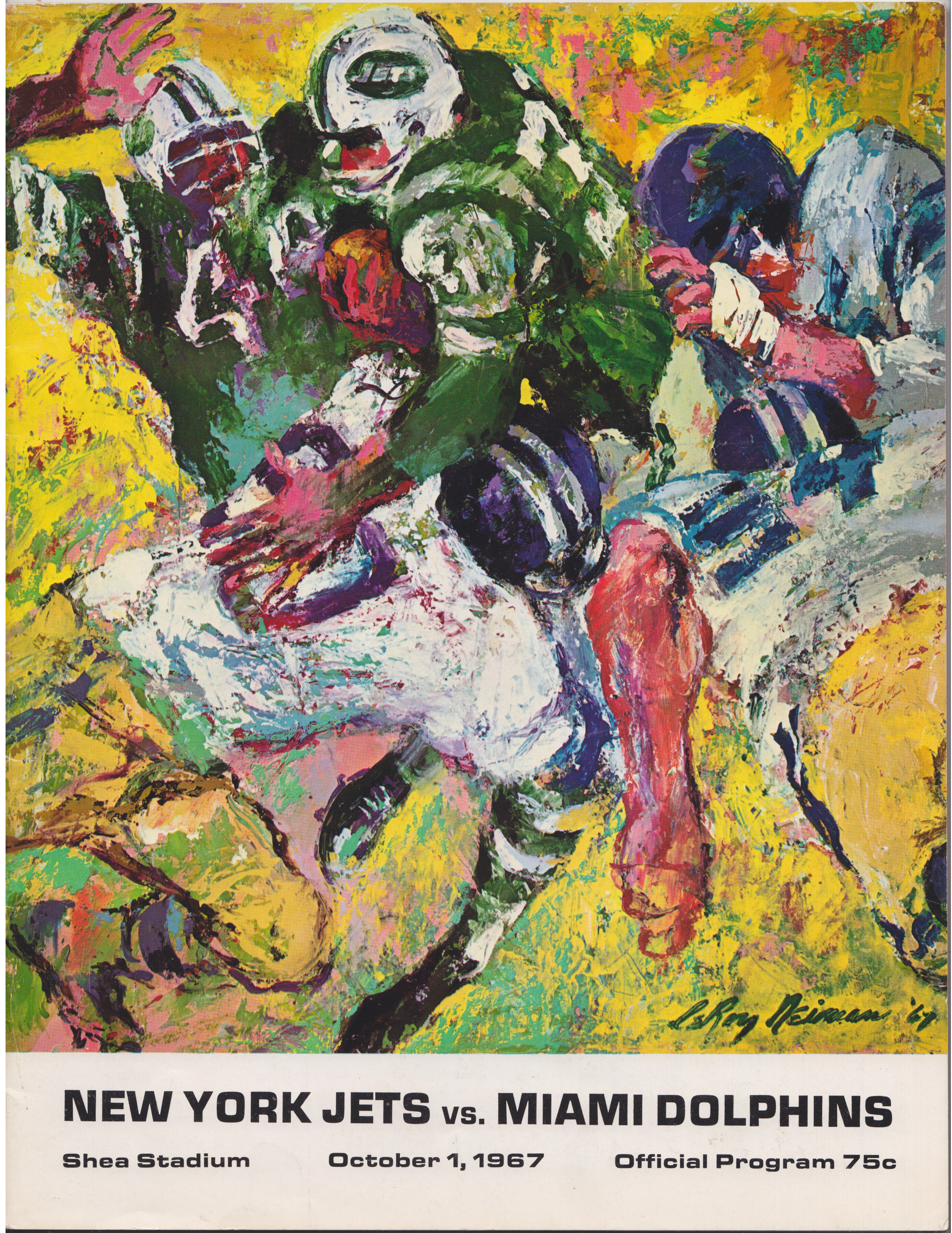 Cover by Leroy Nieman of the game program for the Miami Dolphins-New York Jets game, October 1, 1967 (home opener_